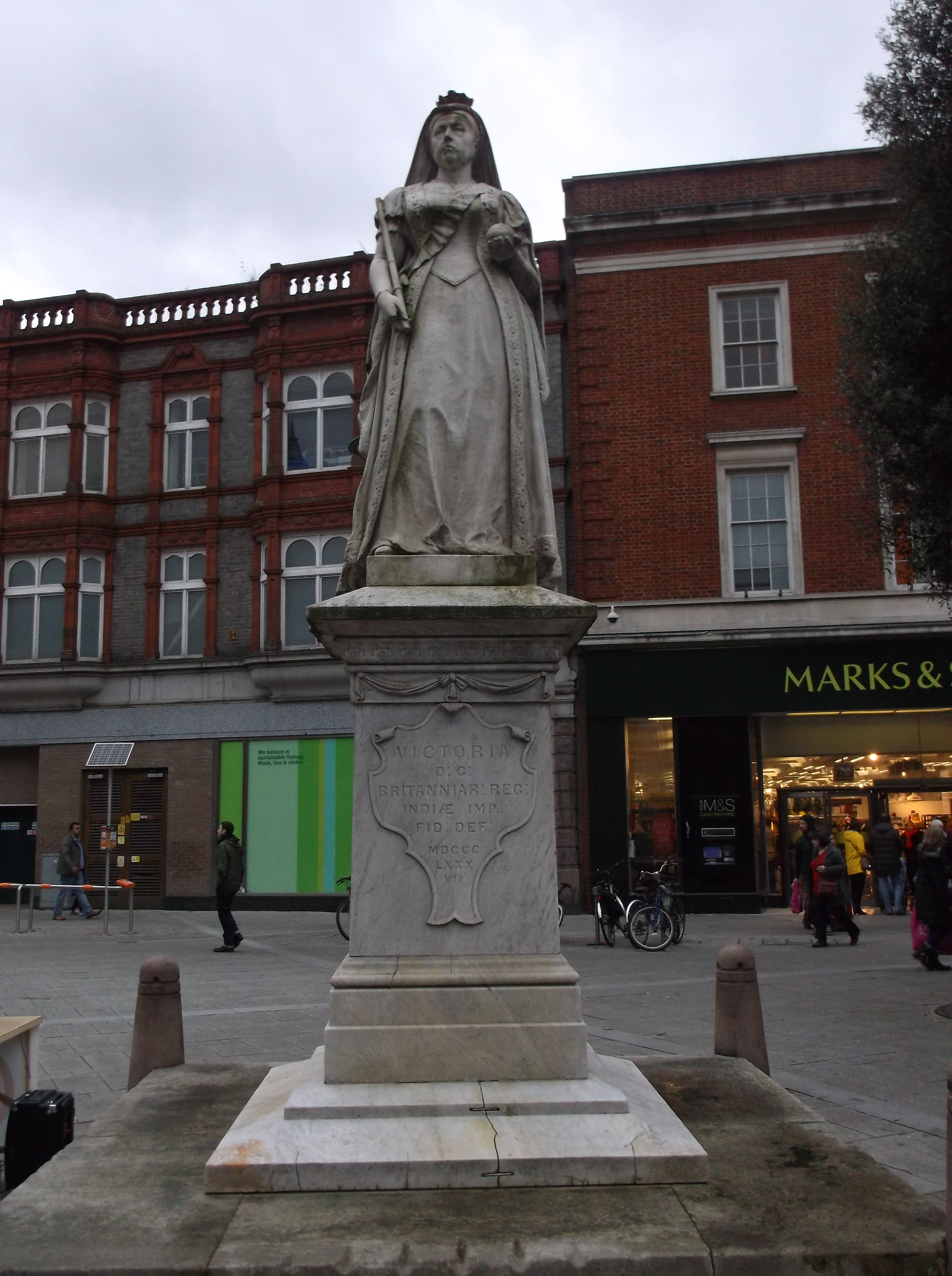 Statue of Queen Victoria in Reading town centre